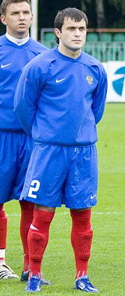 Alan Kasaev